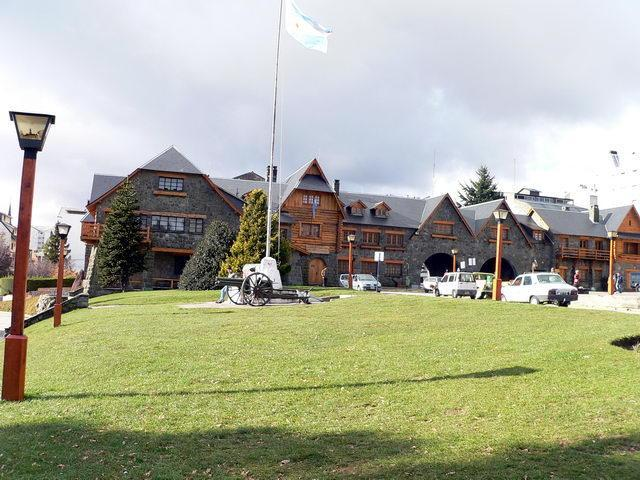 Patagonian Museum "Francisco Pascasio Moreno", in the argentinian city of San Carlos de Bariloche.